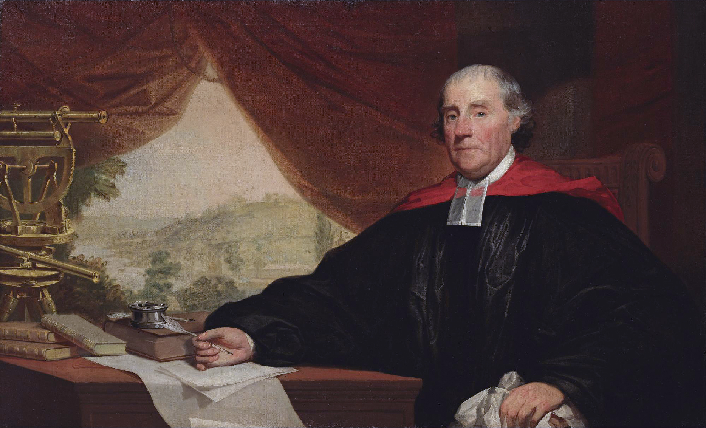 "William Smith," oil on canvas, by the American artist Gilbert Stuart. 37 in. x 60 in. Courtesy of the University of Pennsylvania Museum. Image courtesy of The Athenaeum. As of 2016, in Crystal Bridges Museum of American Art.